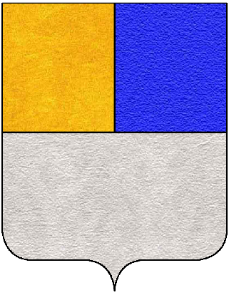 Falier Family coat of arms